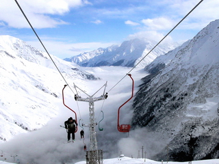 prielbrus